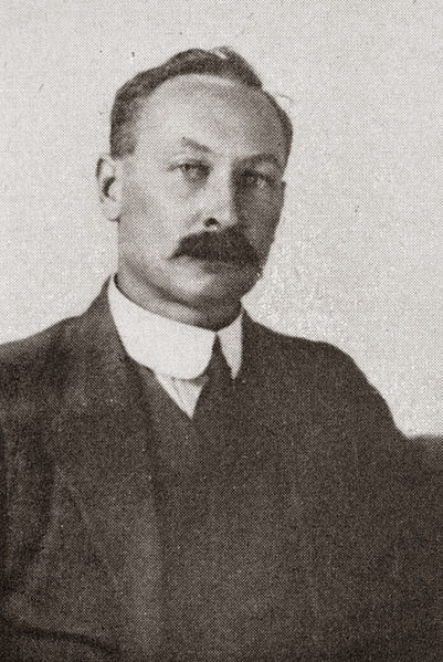 Walter Madeley (1873-1947), MP (1910-1947), leader of the south african labour party (1928-1946), minister of Posts, Telegraphs and Public Works (1925-1929) and minister of labour (1939-1945)